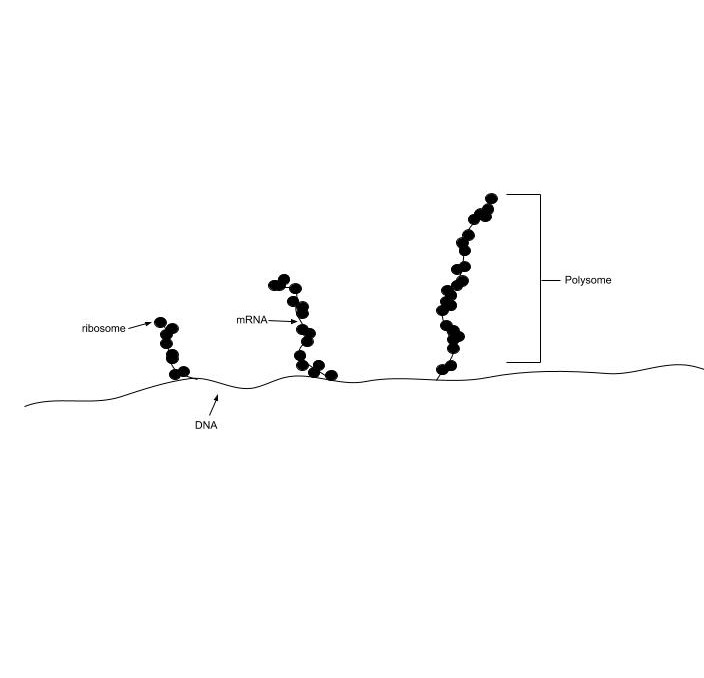 Visual of polysome structure related to mRNA and DNA